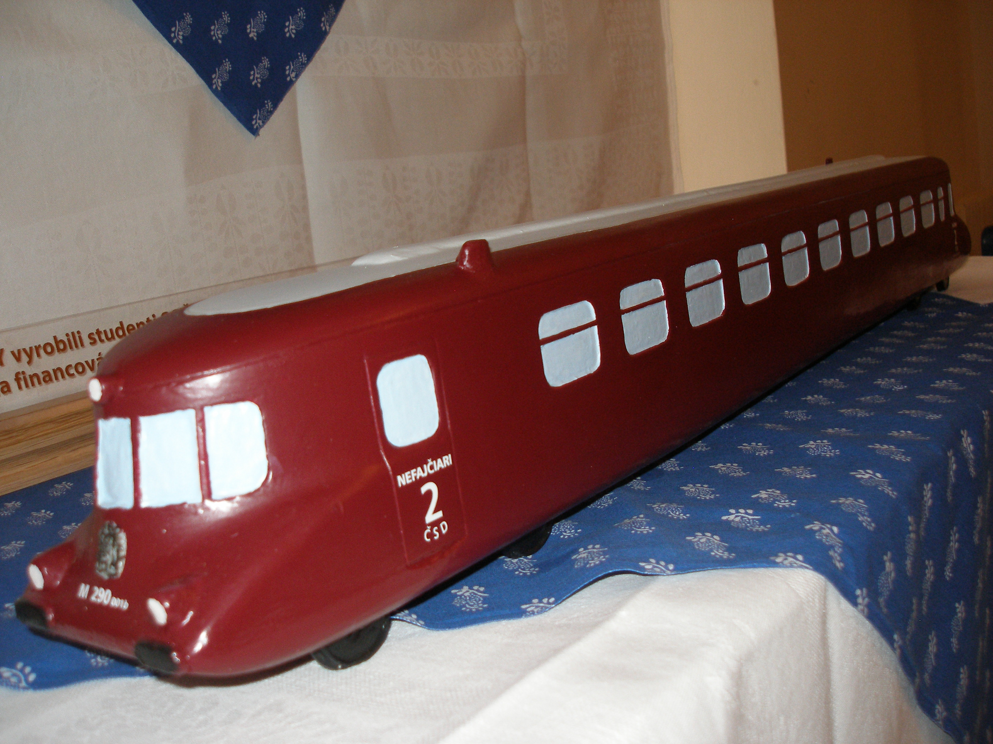 Modell ČSD M 290.0